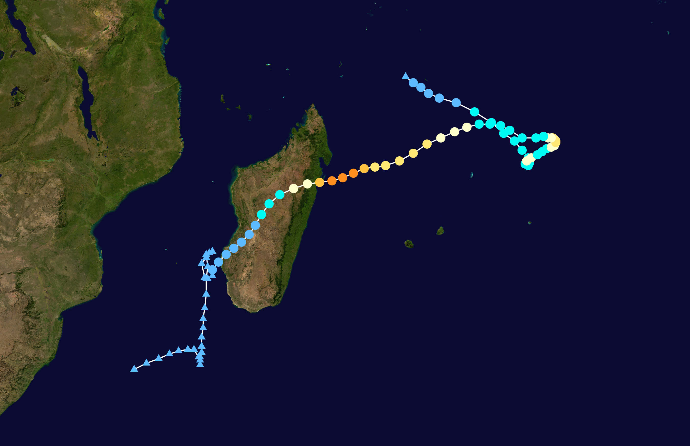 Track map of Intense Tropical Cyclone Ivan of the 2007-08 South West Indian Ocean cyclone season. The points show the location of the storm at 6-hour intervals. The colour represents the storm's maximum sustained wind speeds as classified in the Saffir–Simpson scale (see below), and the shape of the data points represent the nature of the storm, according to the legend below. Saffir–Simpson scale Tropical depression≤38 mph≤62 km/h Category 3111–129 mph178–208 km/h Tropical storm39–73 mph63–118 km/h Category 4130–156 mph209–251 km/h Category 174–95 mph119–153 km/h Category 5≥157 mph≥252 km/h Category 296–110 mph154–177 km/h Unknown Storm type Tropical cyclone Subtropical cyclone Extratropical cyclone / Remnant low / Tropical disturbance / Monsoon depression